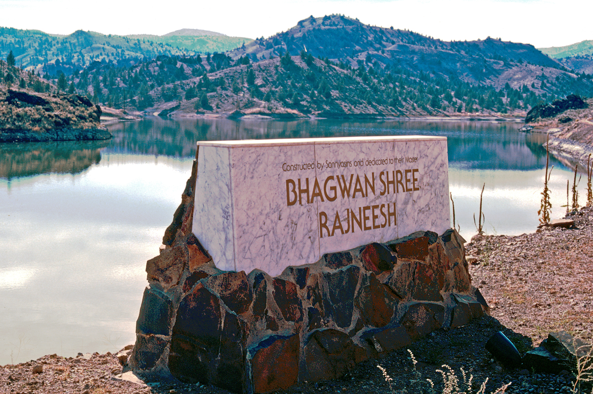 Stone reads: Constructed by Sannyasins and dedicated to their Master BHAGWAN SHREE RAJNEESH